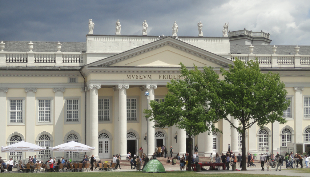 view from plaza